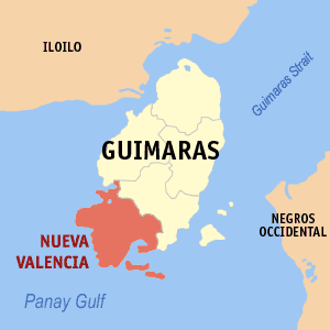 Map of Guimaras showing the location of Nueva Valencia